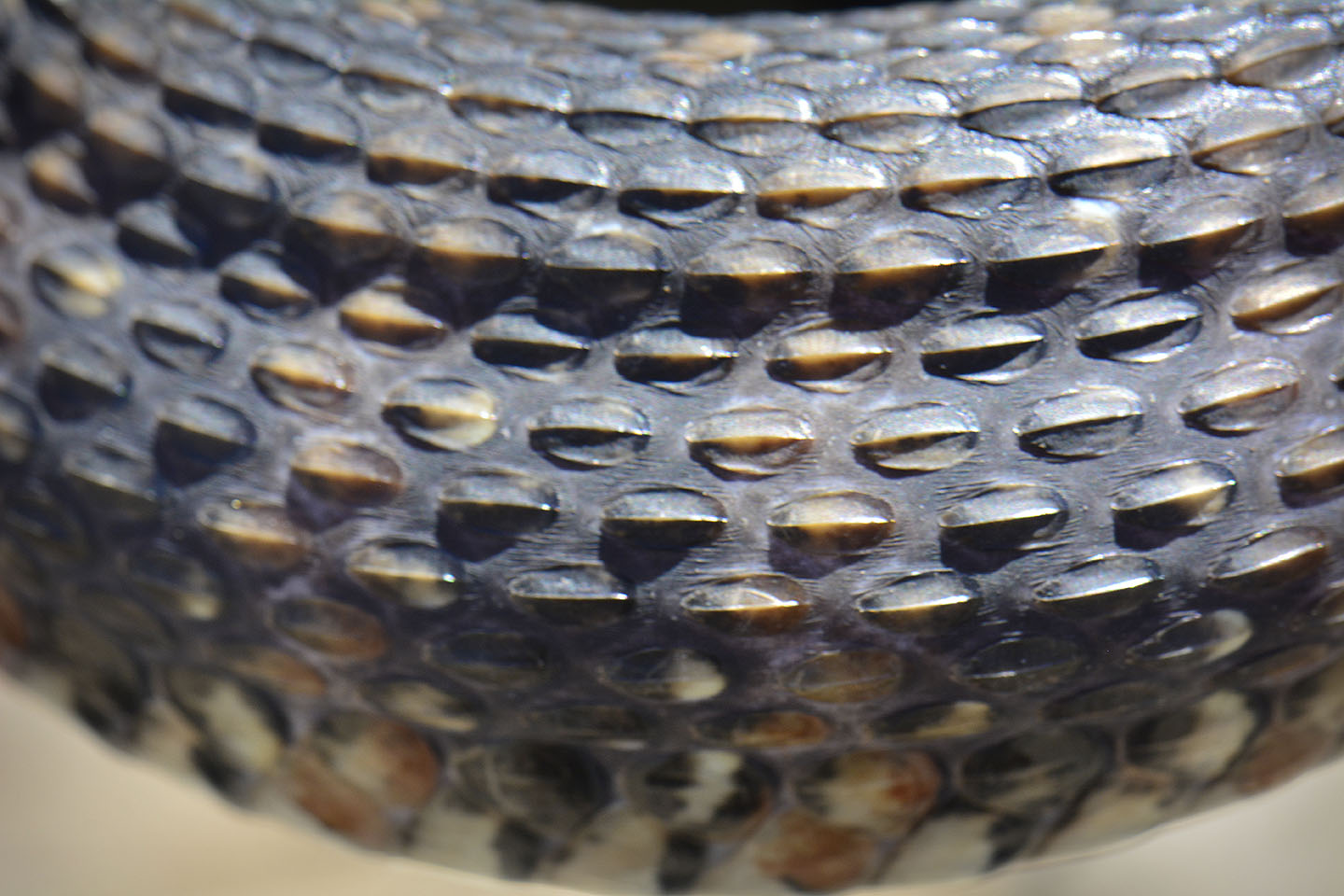 (Photo: Jon Myatt/USFWS)